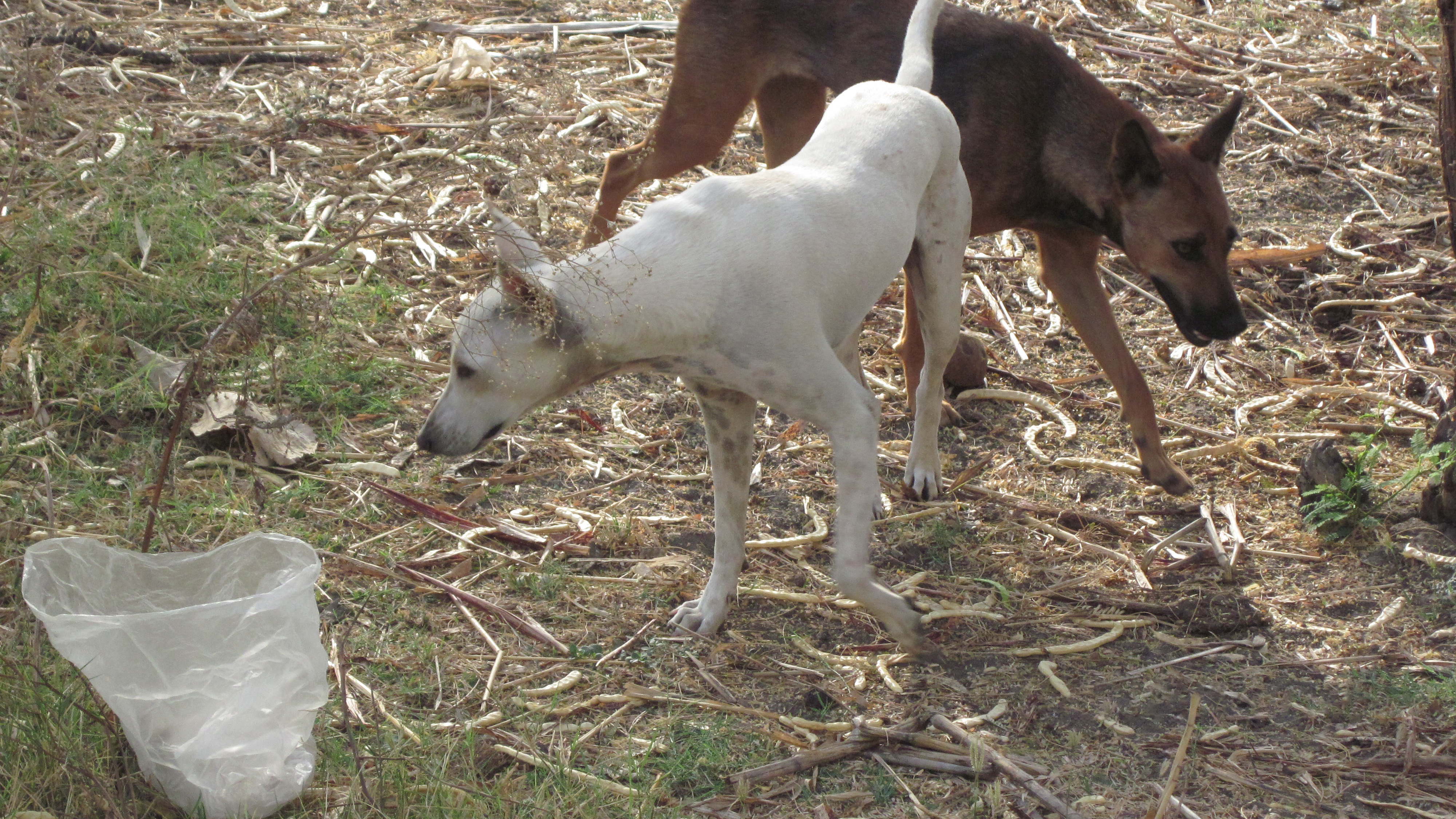 stray dogs from Kozhikode, Kerala, India